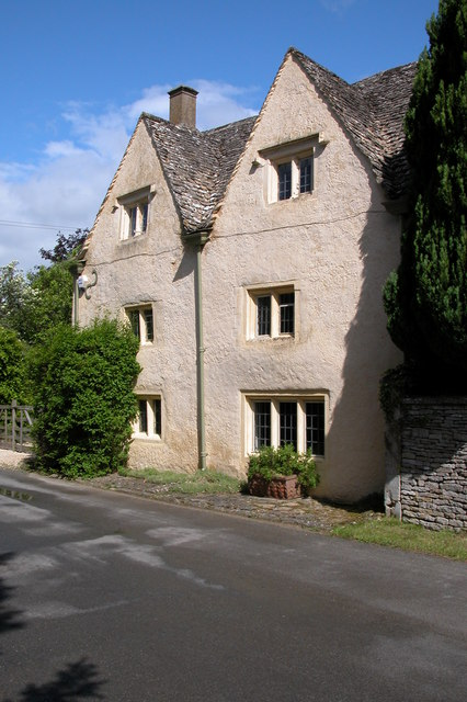 House in main street, Naunton, Gloucestershire